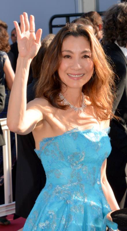 Michelle Yeoh at the Cannes Film Festival